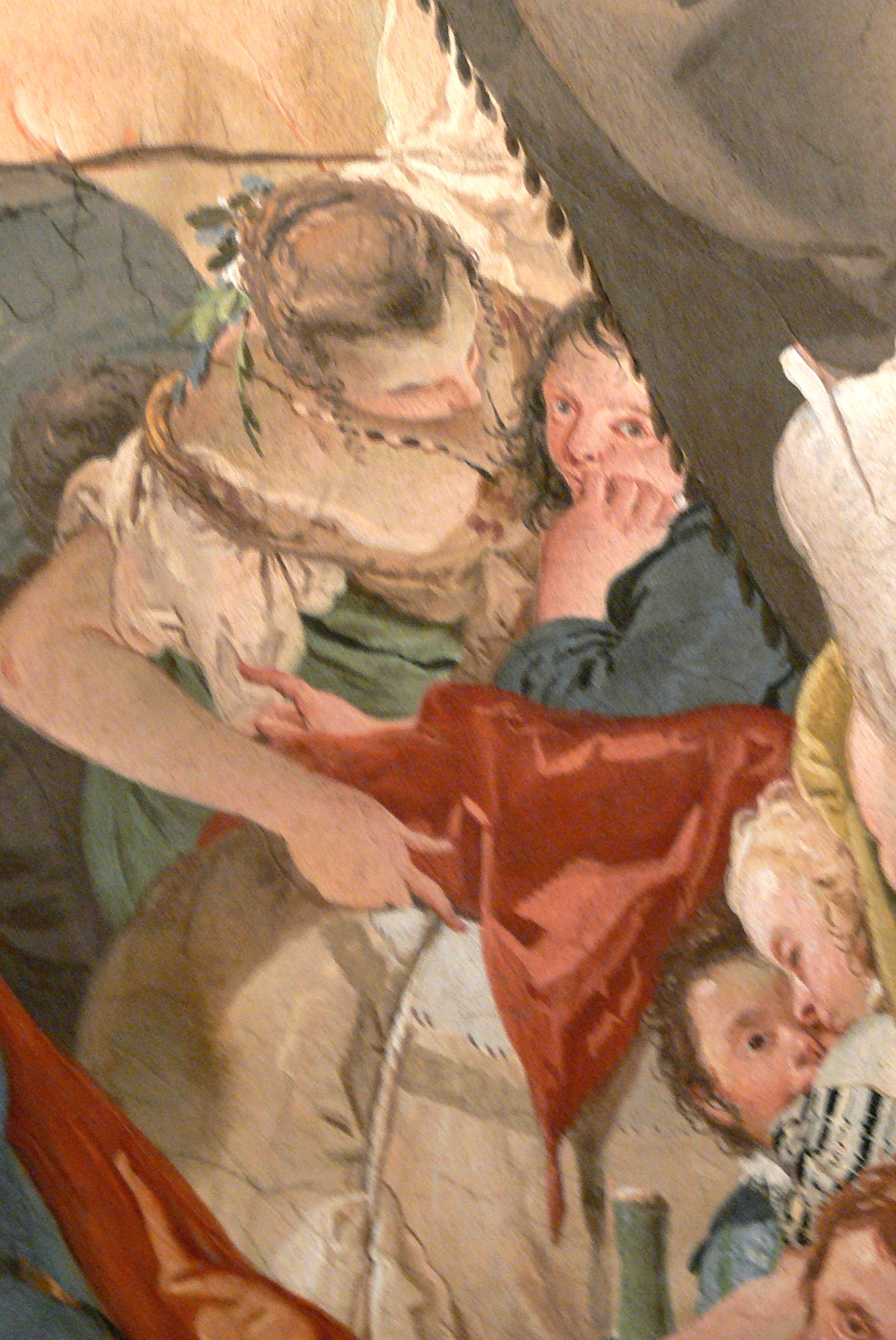 Udine, Italy. Palazzo Patriarcale - Galleria del Tiepolo: "Laban is looking for idols" by Giovanni Battista Tiepolo - detail: Leah with children.